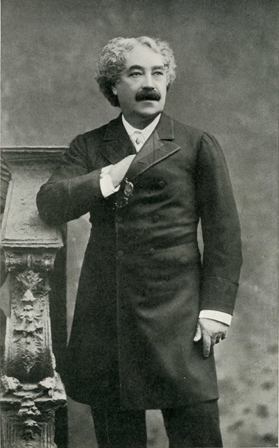 Photograph of John Sims Reeves, English tenor